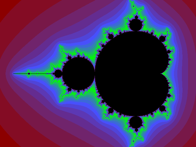 Mandelbrot set with colored environment. Each pixel is associated with a certain sequence of complex numbers. In this image the index for which the absolute value of all following numbers exceed 1000 does not increases from each colored stripe to the next towards the mandelbrot set by the amount of 1. This is the main difference between this image and Image:Mandelbrot set with coloured environment.png. Coordinates of the center: Re(c) = -.7, Im(c) = 0 Horizontal diameter of the image: 3.0 Created by Wolfgang Beyer with a self written program. Uploaded by the creator.